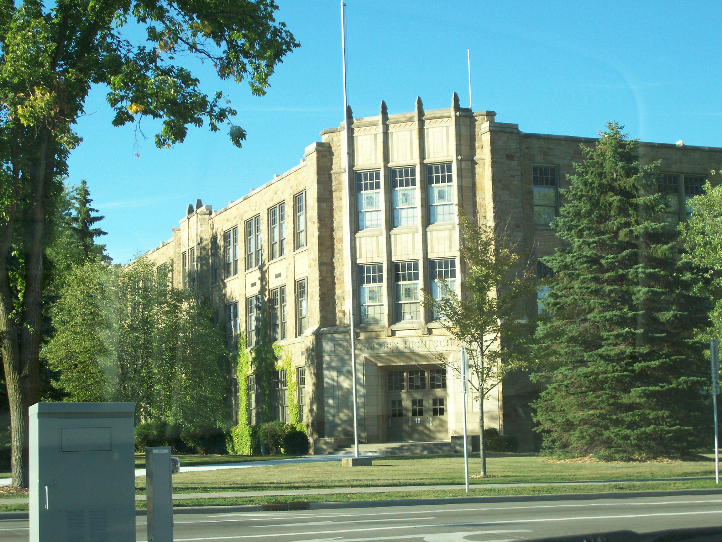 Looking north at P. J. Jacobs High School in Stevens Point, Wisconsin, USA from Wisconsin Highway 66 / U.S. Route 10. The building notes that it is a high school, but it is now used as an elementary school.